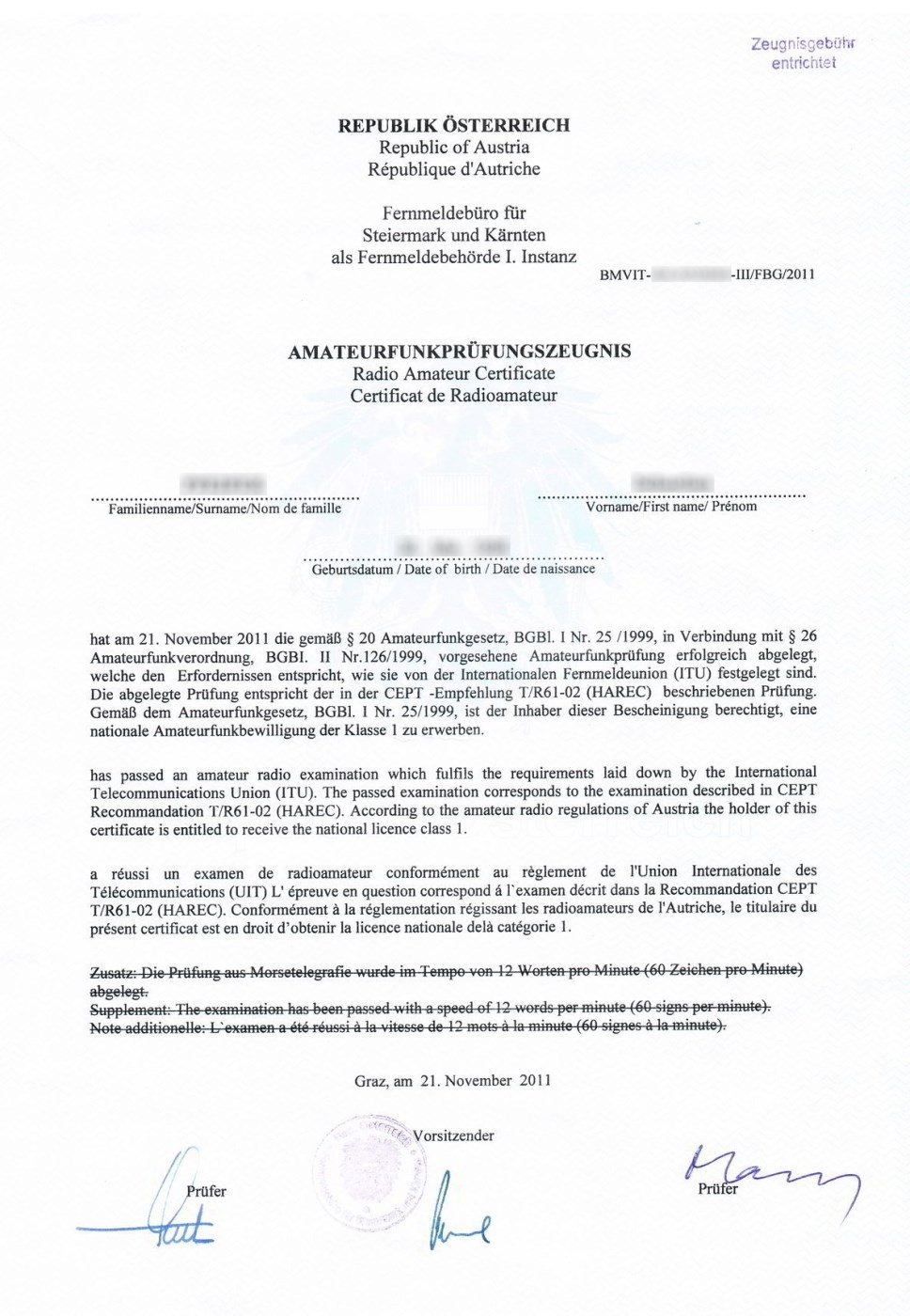 Amateur radio operator certification for Austrian CEPT-1 License.